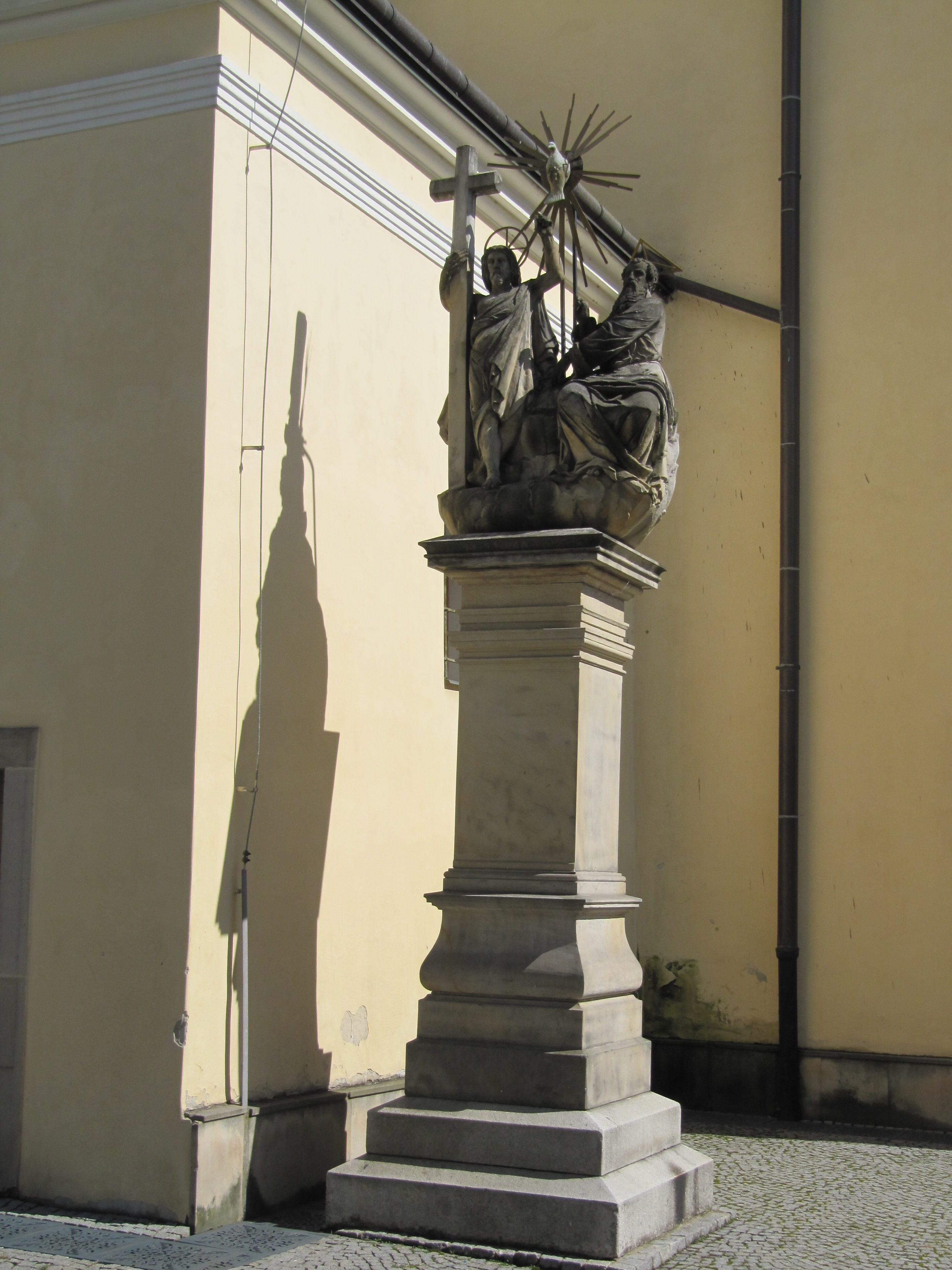 Odry in Nový Jičín District, Czech Republic. Sculpture of the Holy Trinity.